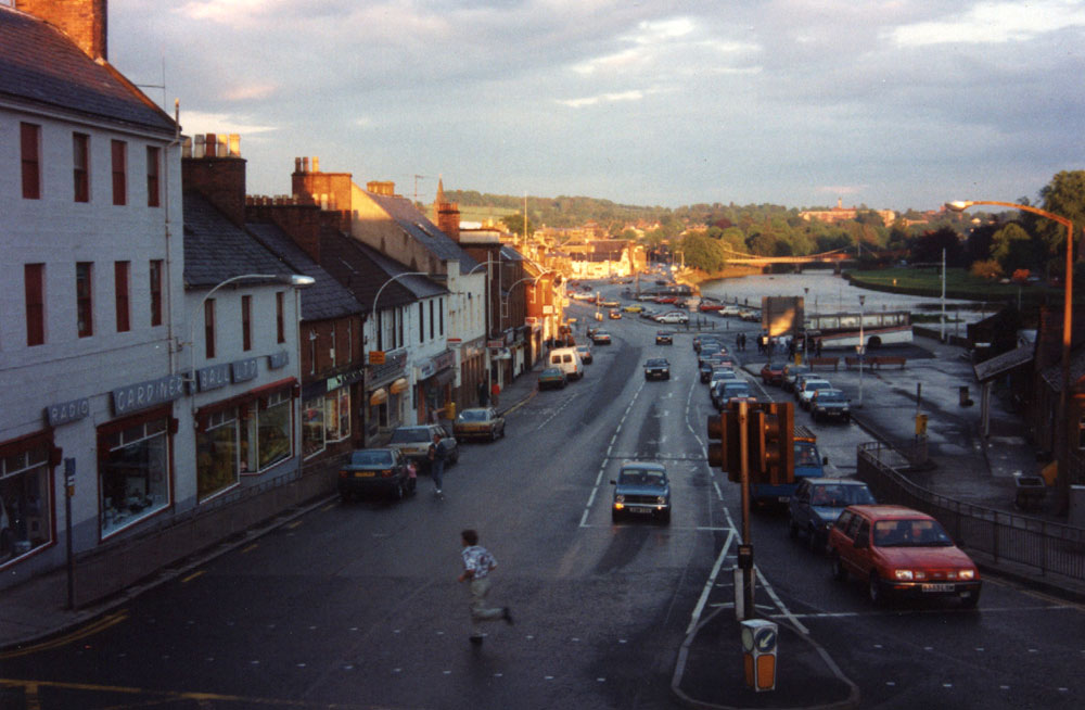 Whitesands from Buccleuch st in Dumfries